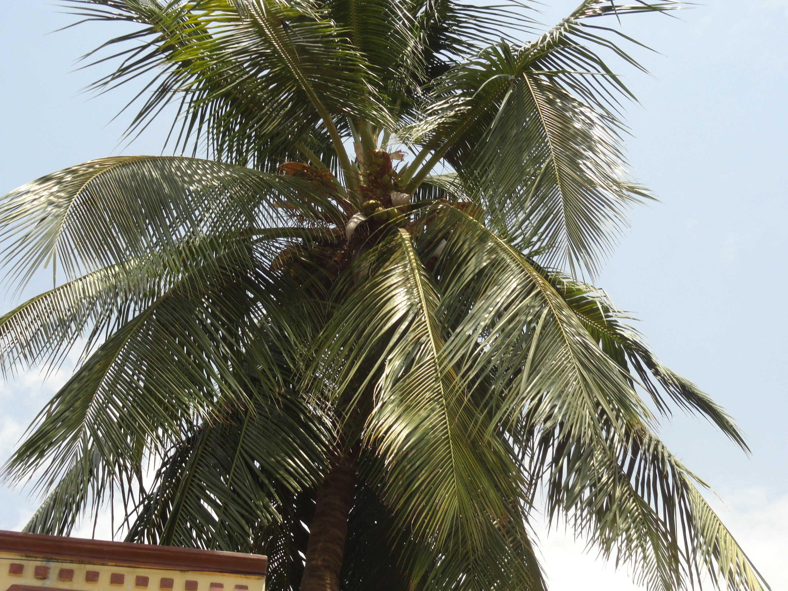 coconut tree. at vanhasthalipurasm. my own work